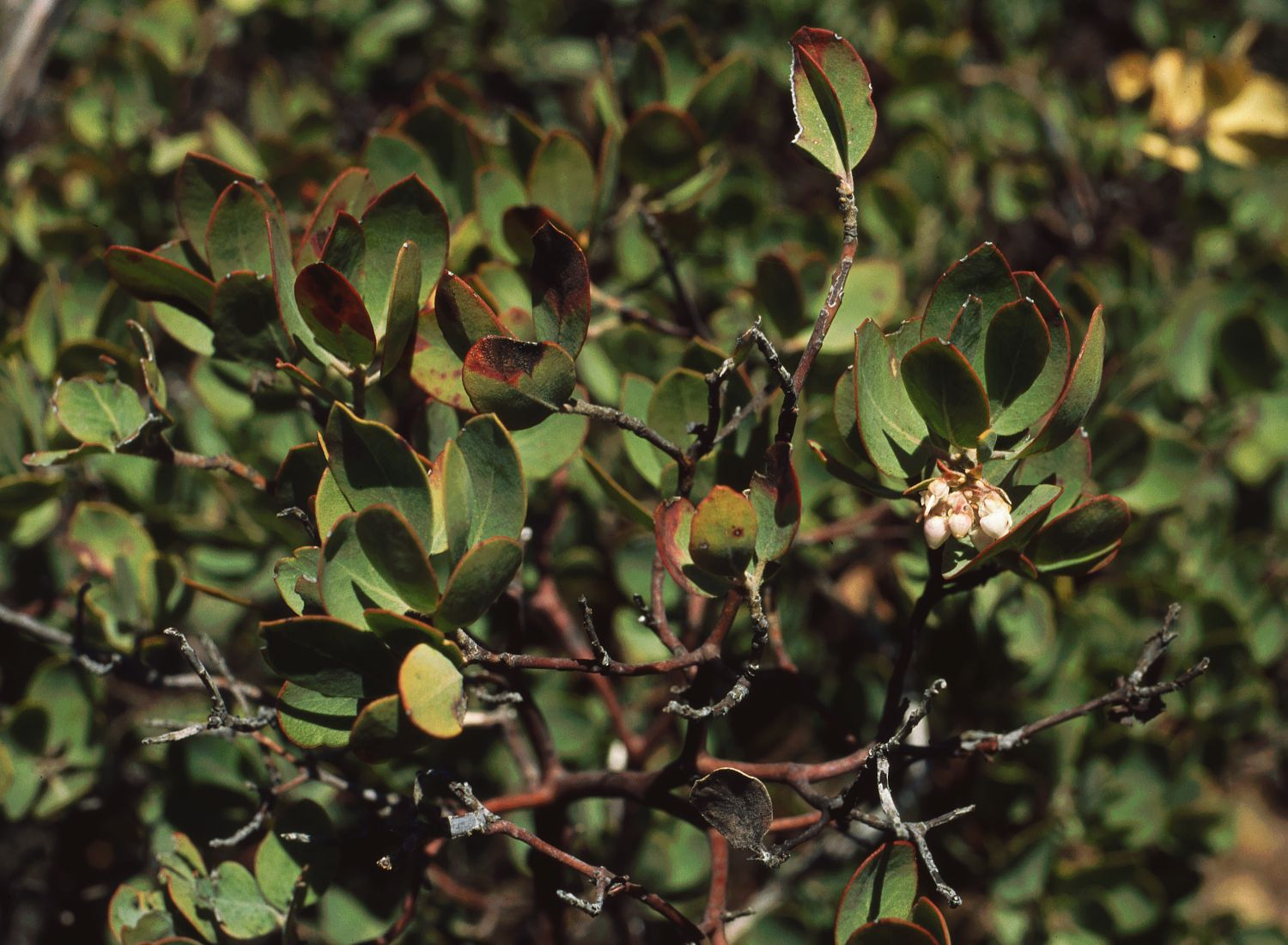 Arctostaphylos glandulosa subsp. glandulosa — Eastwood manzanita; Ericaceae (Heidekrautgewächse). On Mount Tamalpais, Marin County, Kalifornien/California, U.S.